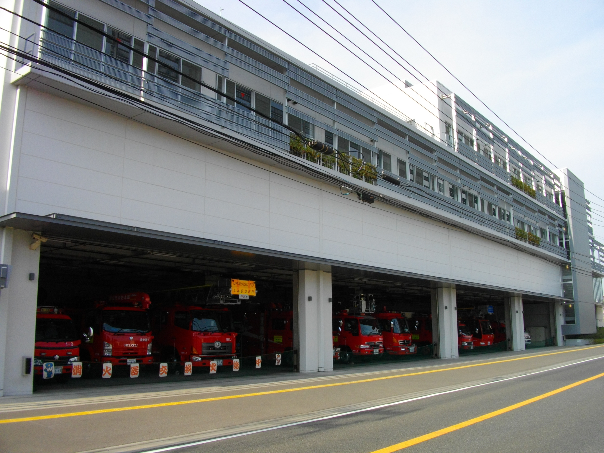 Urayasu City Fire Department